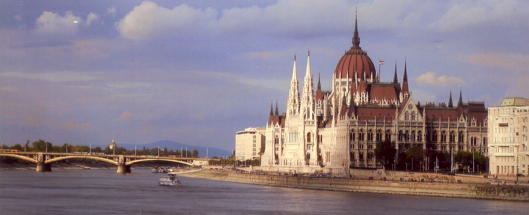 Budapest Parliament near Danubio river